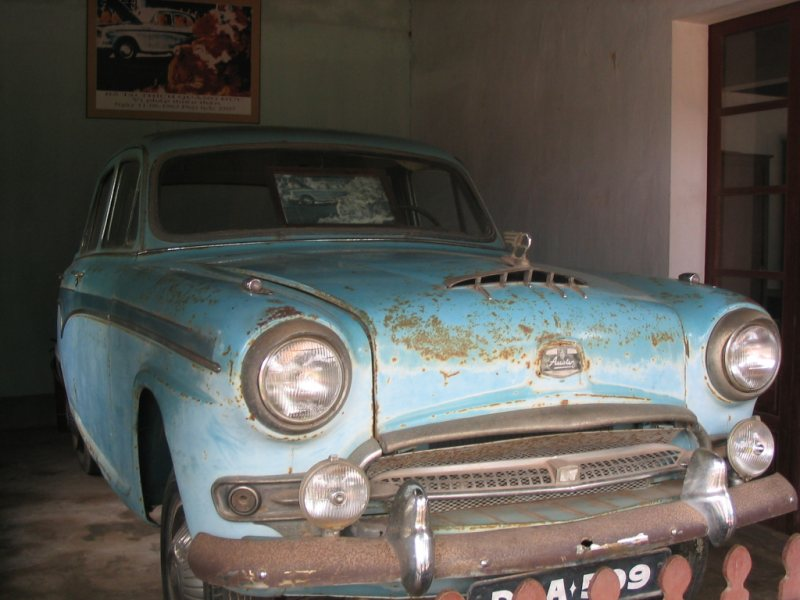 Original description: Description: Thích Quảng Đức's car at the temple of literature of Hue (1956 Austin A95 Saloon)(picture captured in 2003) Additional comments: For some time now, and perhaps a long time, Thích Quảng Đức's car is not at temple of literature of Hue, but at Thien Mu Pagoda in Hue. See also Chùa Thiên Mụ.